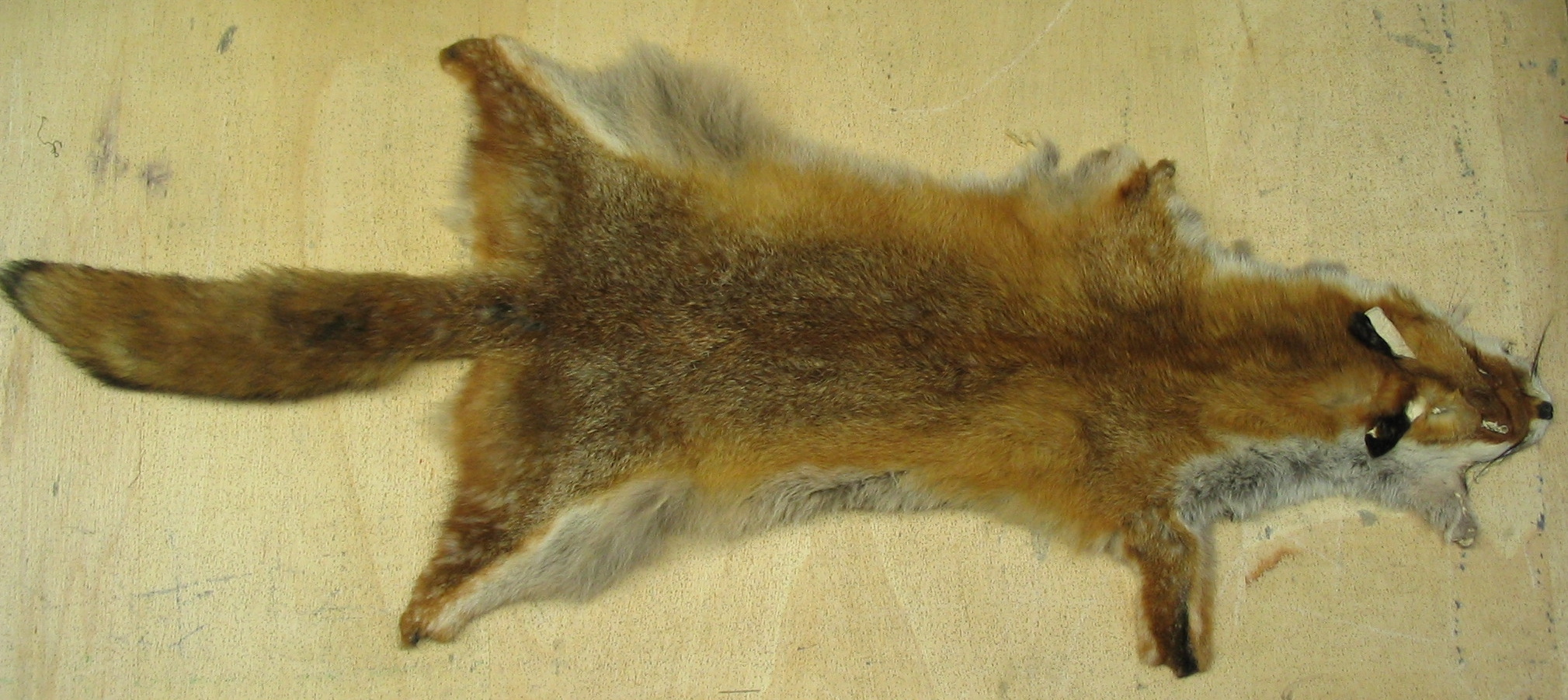 German red fox fur skin, white spotted. 3 images.